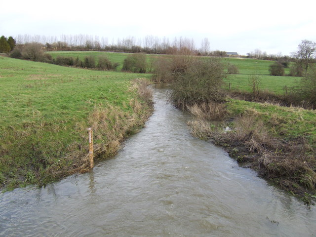 River Cole flowing north Eventually joining the other tributaries at the head of the Thames at Lechlade. This marks the Wiltshire (left bank) Oxfordshire (right bank) boundary.